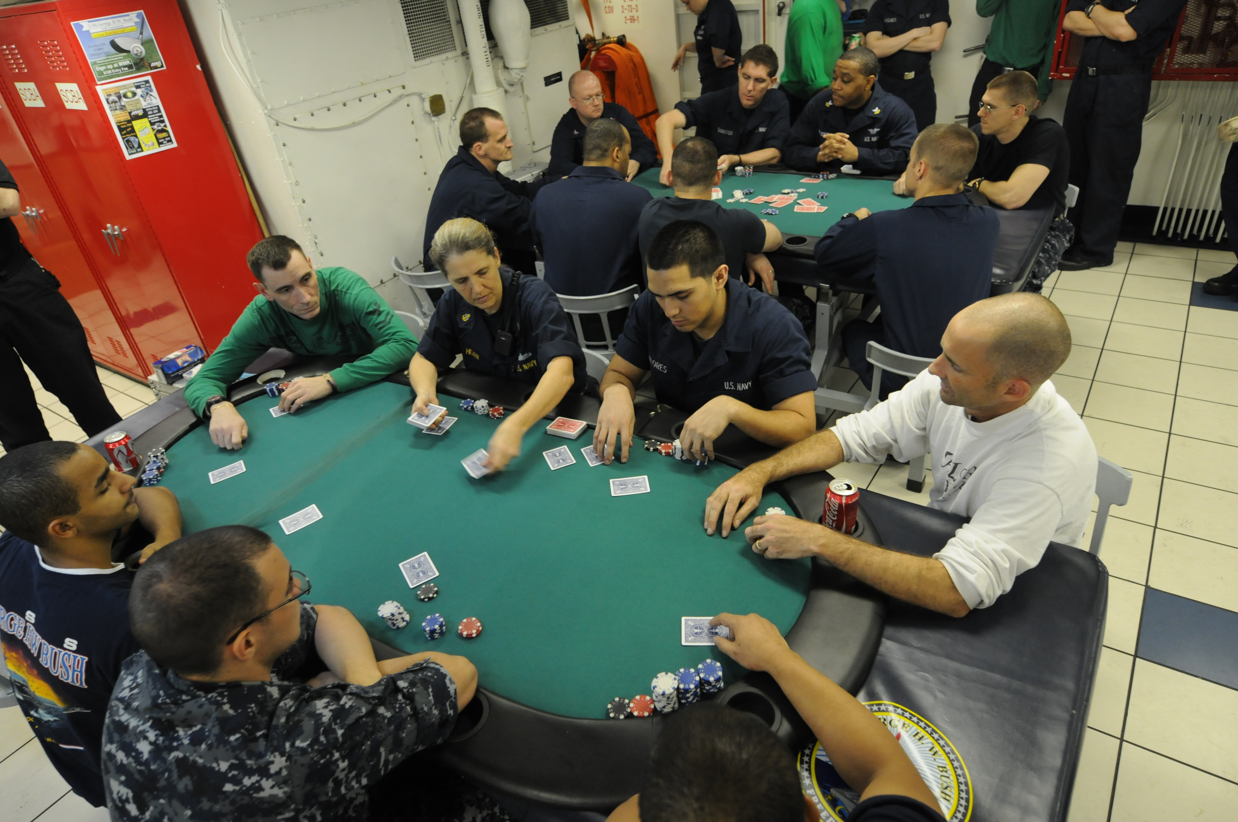 ARABIAN SEA (Sept. 29, 2011) Sailors participate in a poker tournament on the mess decks sponsored by the Morale, Welfare and Recreation (MWR) department aboard the aircraft carrier USS George H.W. Bush (CVN 77). George H.W. Bush is deployed to the U.S. 5th Fleet area of responsibility on its first operational deployment conducting maritime security operations and support missions as part of Operations Enduring Freedom and New Dawn. (U.S. Navy photo by Mass Communication Specialist 2nd Class Jeffrey Richardson/Released)